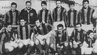 The 1967 squad which won the Primera B championship that year.